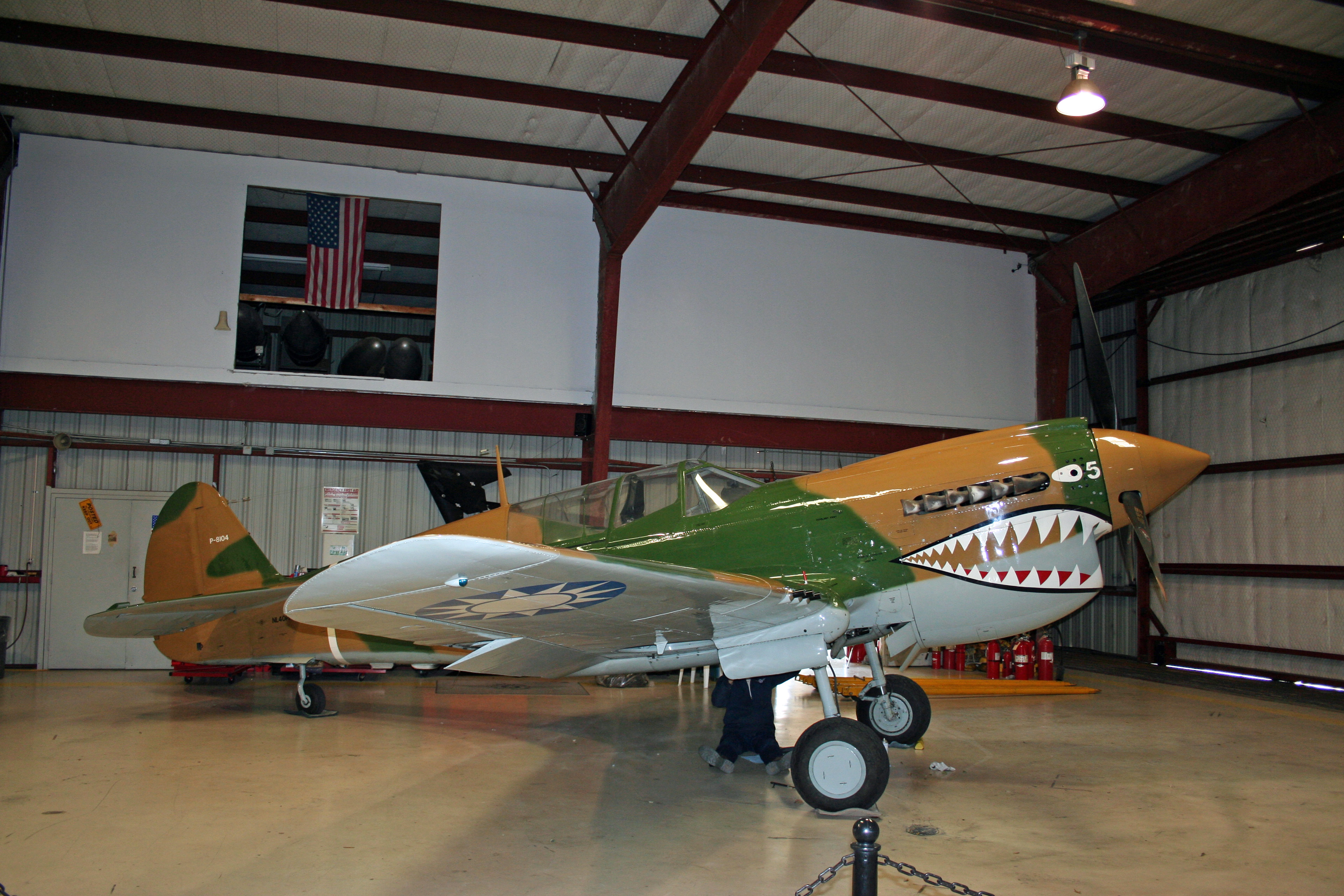 The P-40 Warhawk was a World War II fighter most famously flown by the Flying Tigers.